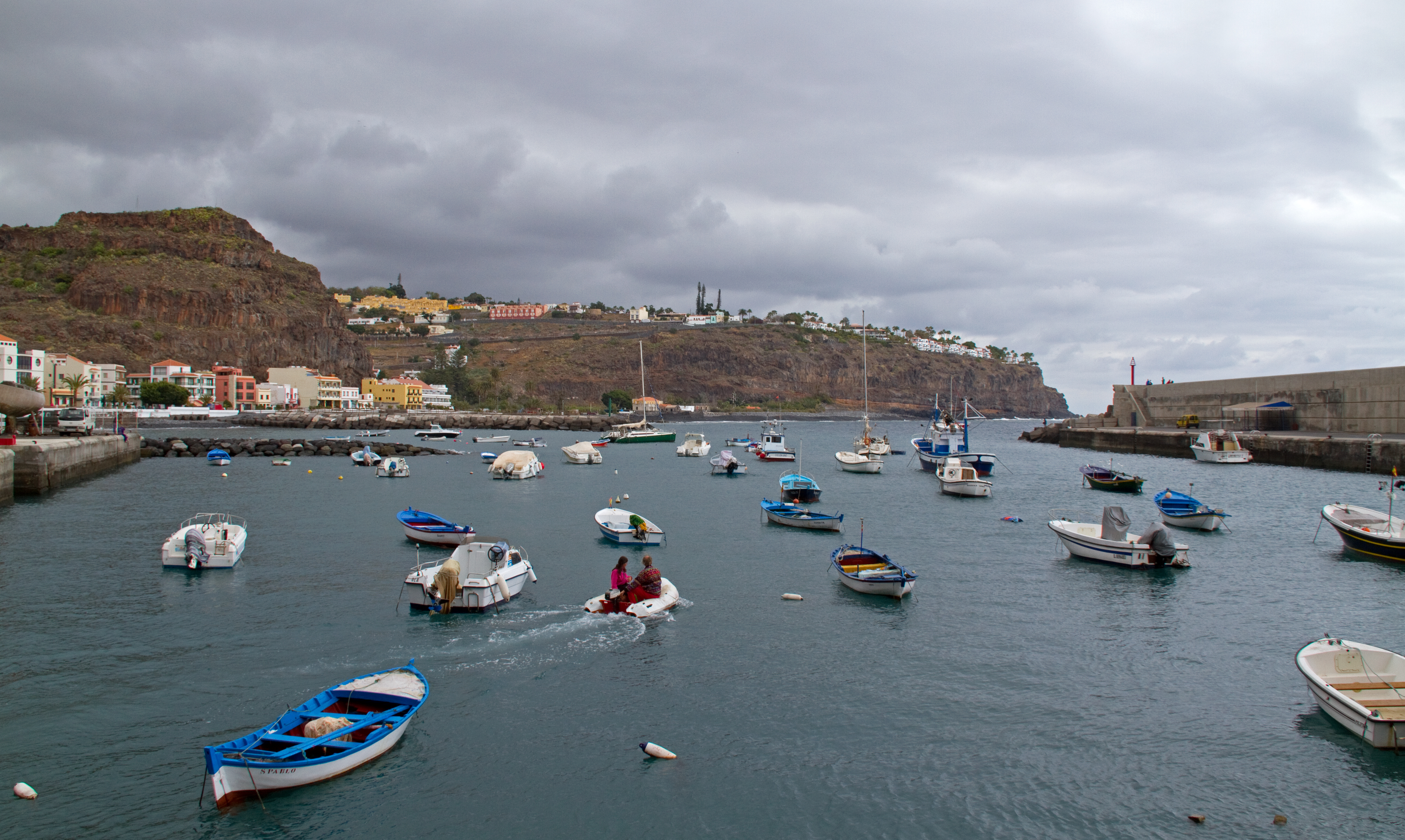 View of Playa de Santiago Harbour